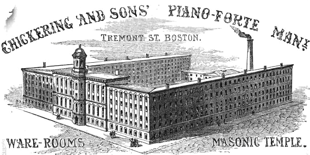 Item from Boston Almanac (Boston: Damrell & Moore, 1856)